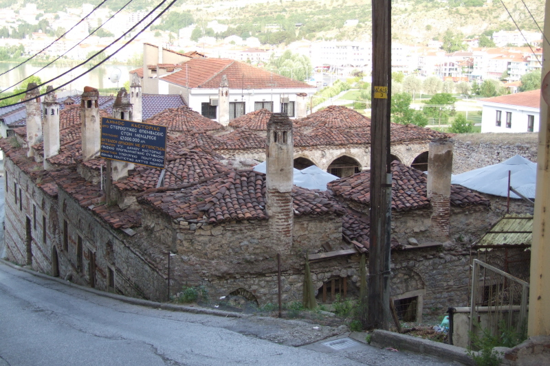 Old Ottoman madrasah in Kastoria, Greece